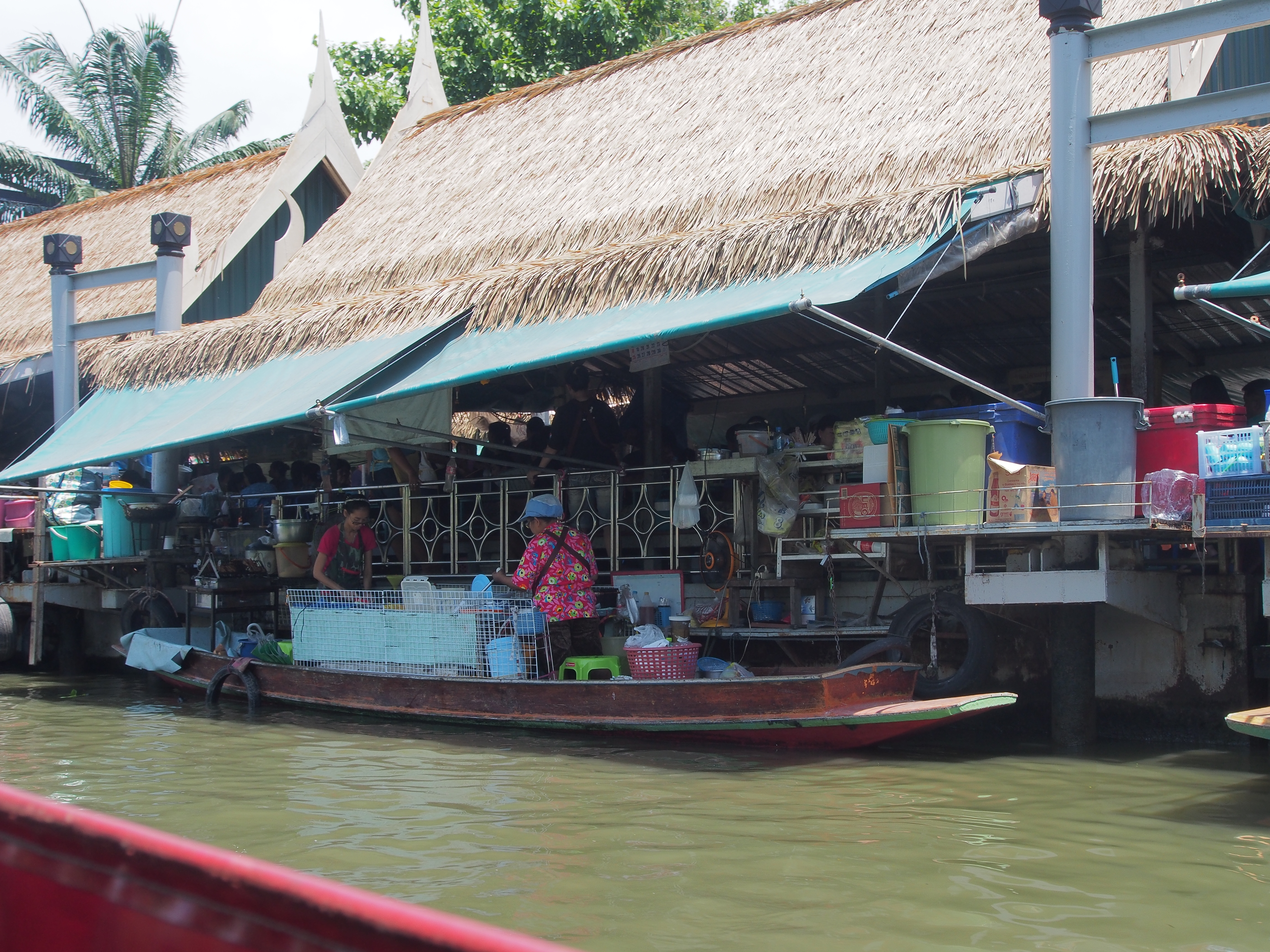 Wat Arun, the most iconic temple of Bangkok is located on Thonburi side of Bangkok, almost opposite to the Grand Palace and Wat Pho. Built during seventeenth century on the bank of the Chao Phraya river, its full name 'Wat Arun Ratchawararam Ratchawaramahawihan' is rather hard to remember so it is often called 'Temple of Dawn. The distinctive shape of Wat Arun consists of a central 'Prang' (a khmer style tower) surrounded by four smaller towers all incrusted with faience from plates and potteries. The stairs to reach a balcony on the main tower are quite steep, usually easier to climb up than to walk down, but the view from up there is really worth it.